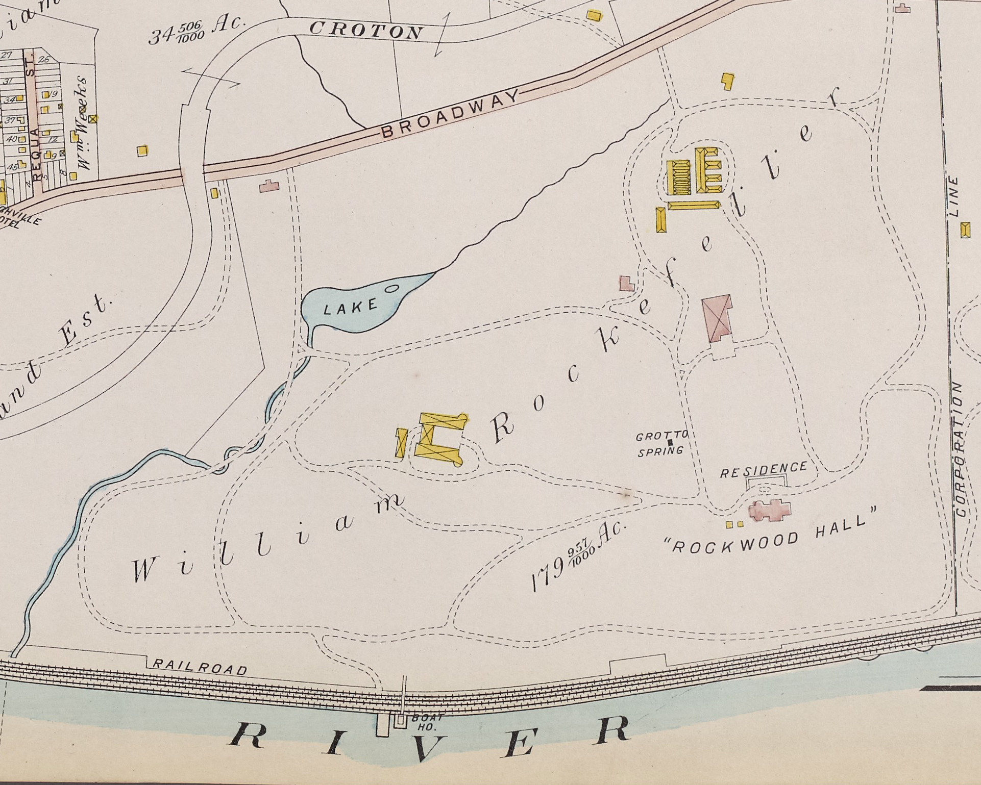 Map of Rockwood Hall published in 1910-1911.